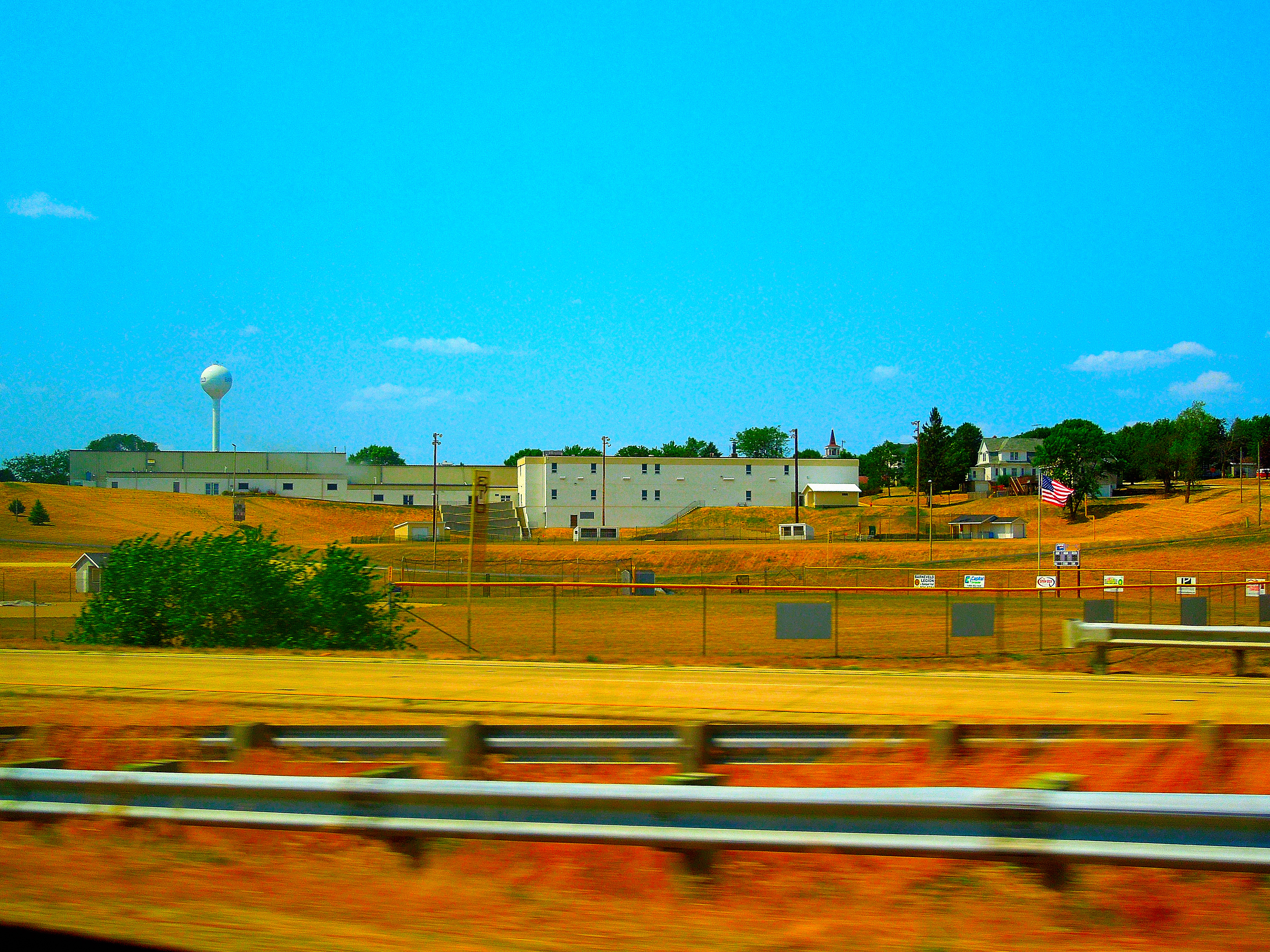 Barneveld Elementary/Middle/High School